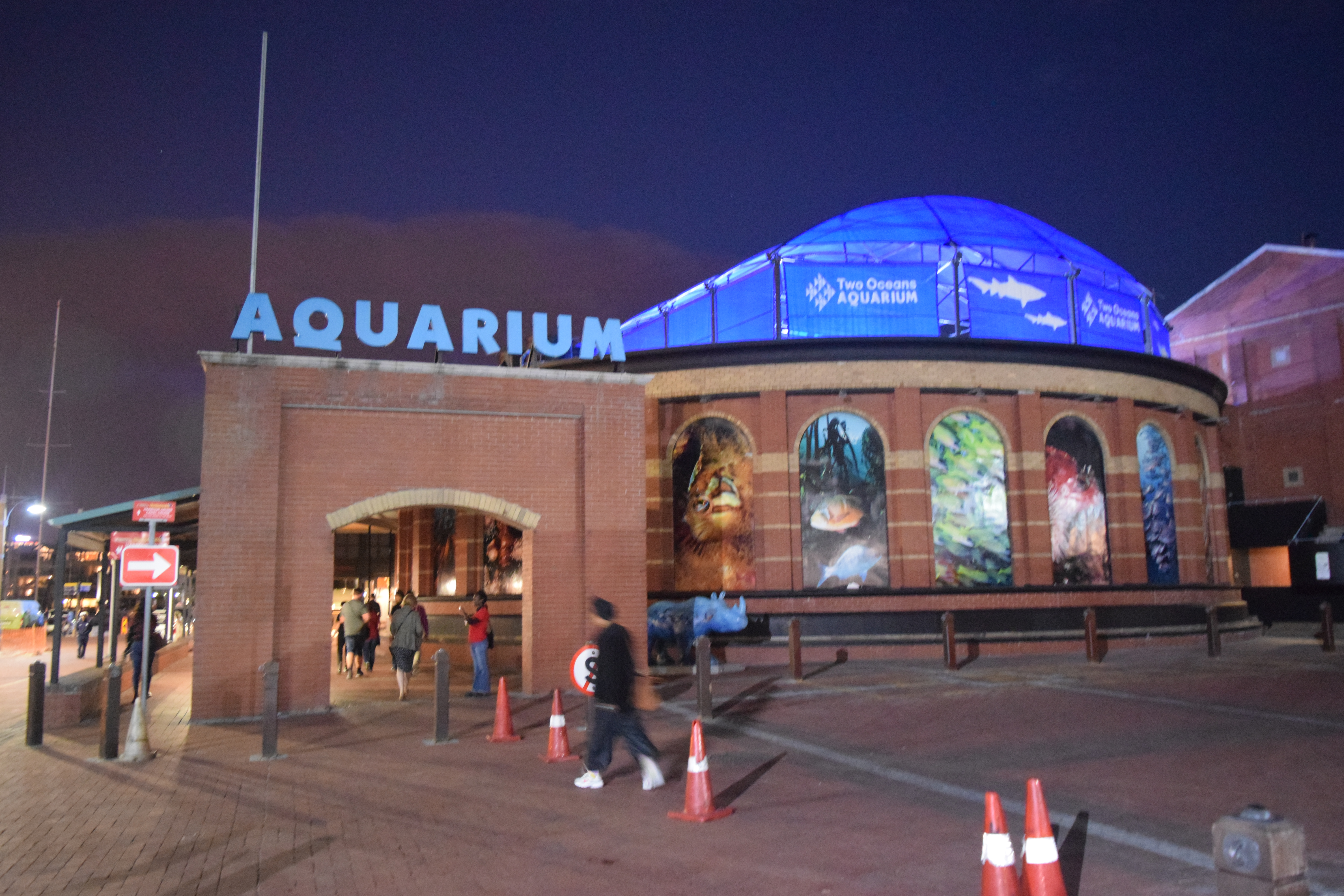 Two Oceans Aquarium Cape Town